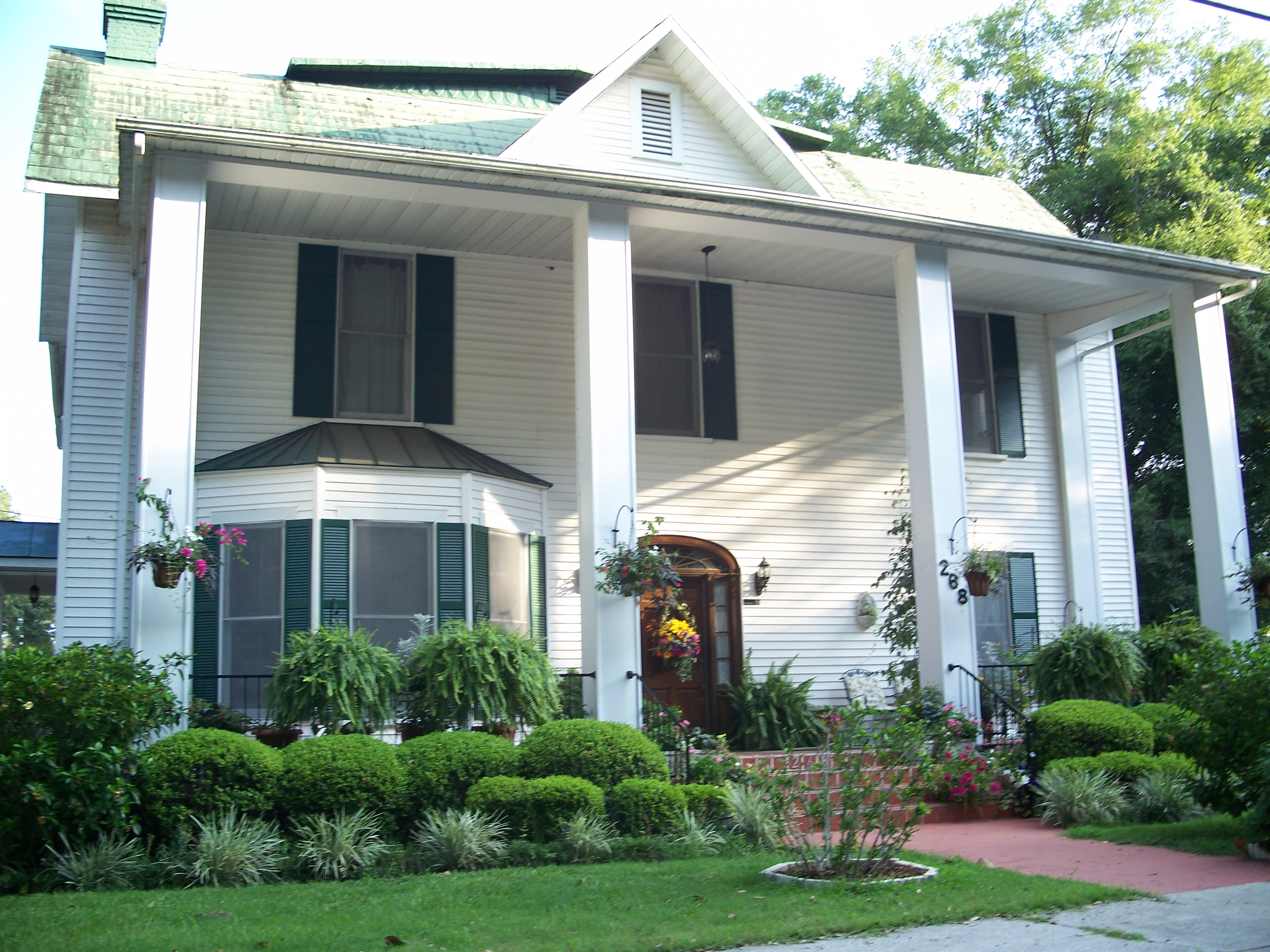 House in the residential historic district, in Lake City, Florida